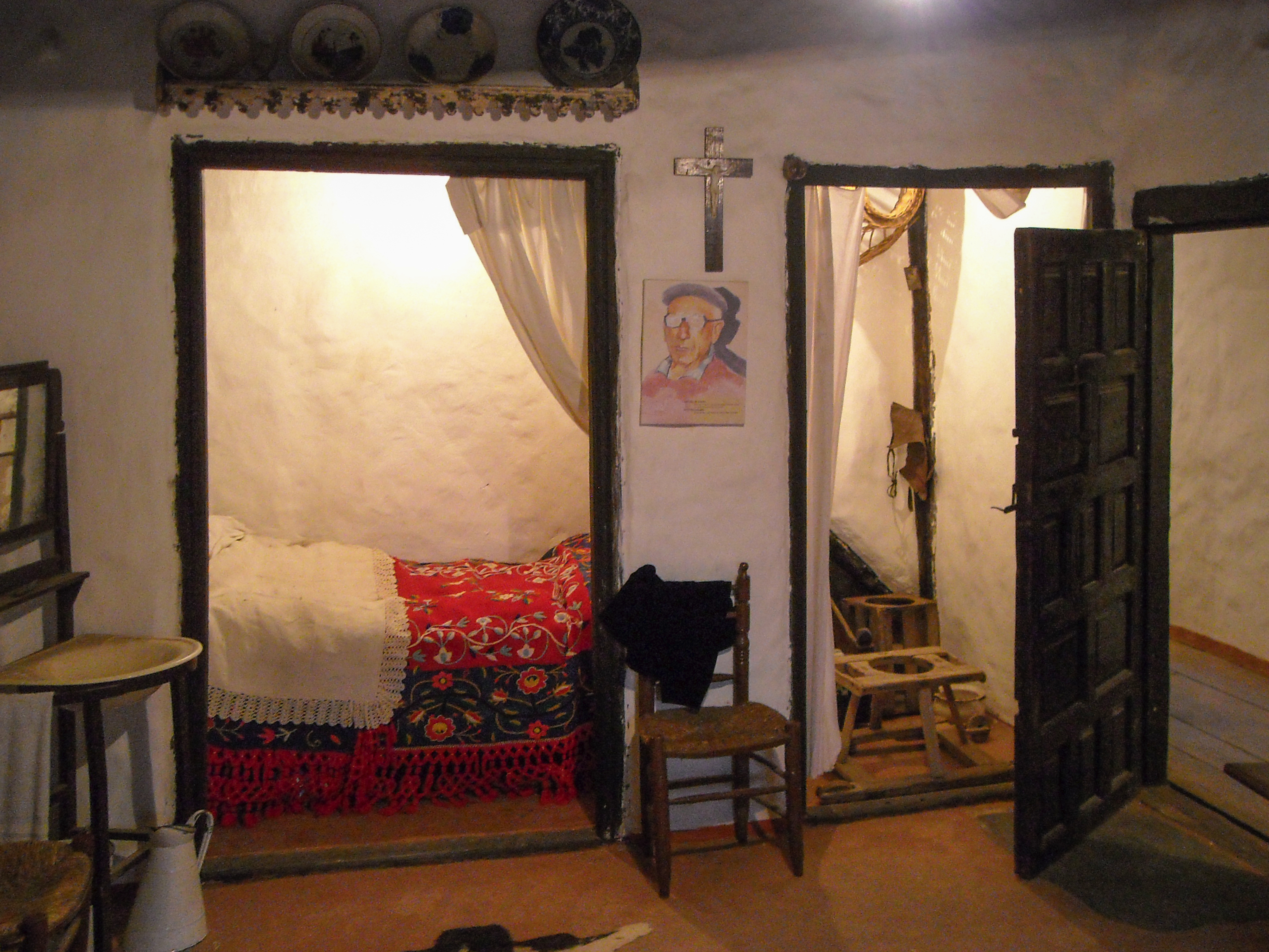 House-museum Sátur Juanela, La Alberca, Salamanca, Spain